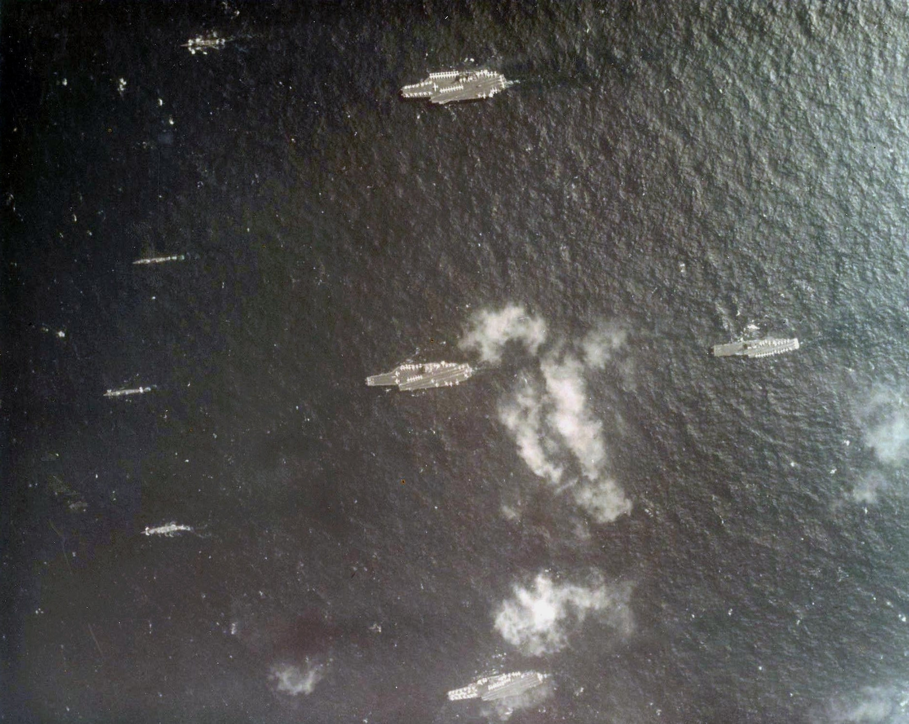 Four U.S. Navy aircraft carriers of Task Force 77 underway in the South China Sea. Easily identifiable is USS Enterprise (CVAN-65) in the center. If the upper carrier is (as stated in the description) USS Constellation (CVA-64), the other carriers are USS Oriskany (CVA-34), right, and USS Saratoga (CVA-60), bottom, circa in January 1973.